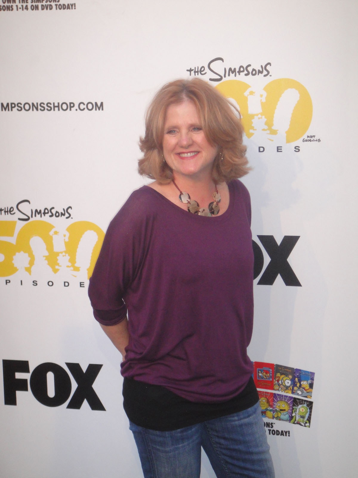 photo © 2012 taken by Doug Kline If you're interested in higher resolution versions of my images, contact me via my profile page.